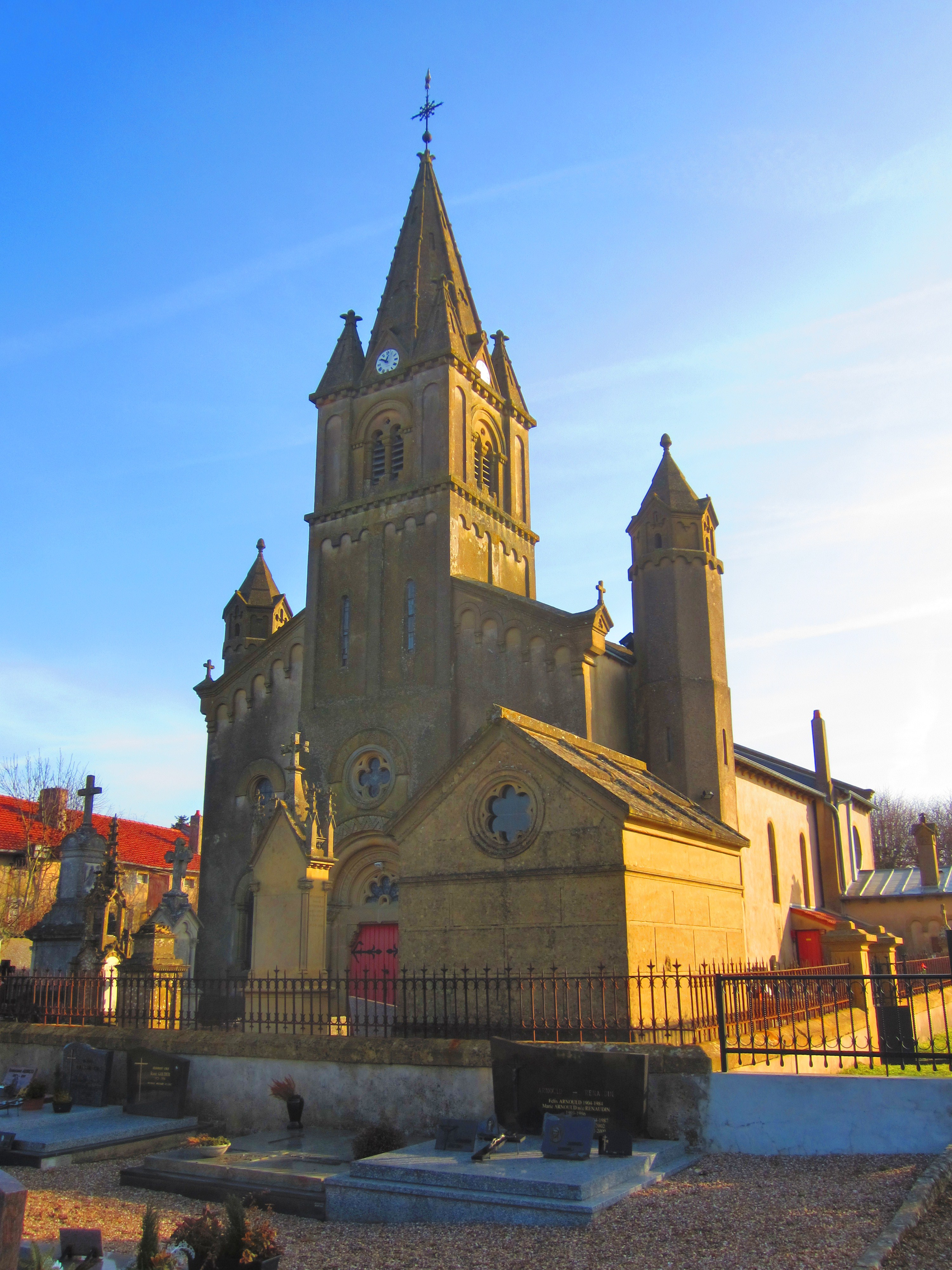 Ogy St Agnan church